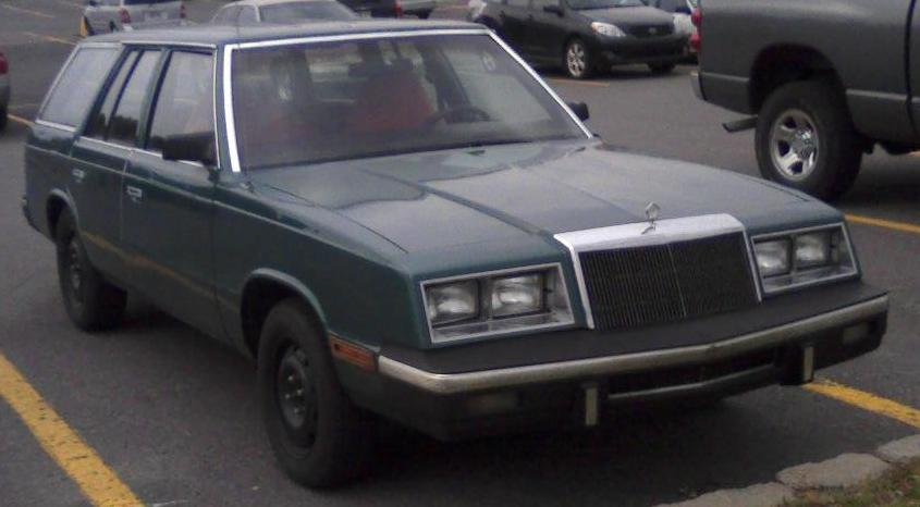 1982-1984 Chrysler Town & Country photographed in Montreal, Quebec, Canada.